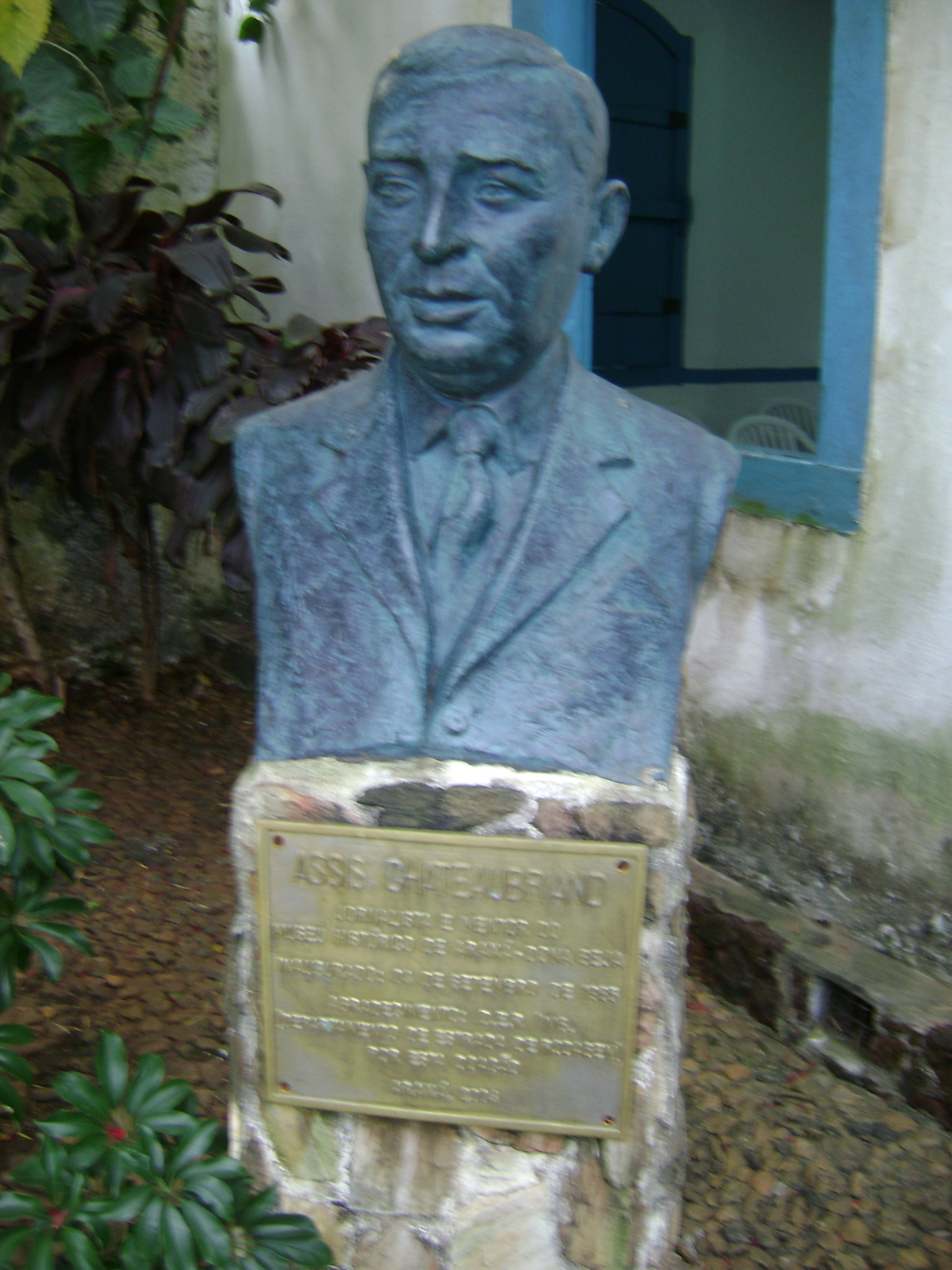 Estátua de Assis Chateaubriand, em Araxá.